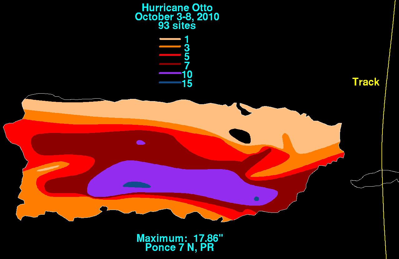 Storm total rainfall map of Hurricane Otto during October 2010.